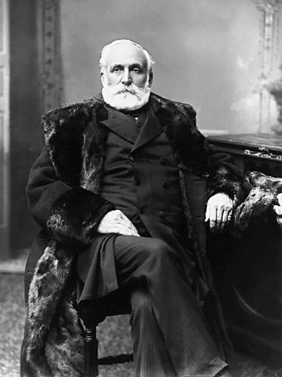 Mackenzie Bowell, Prime Minister of Canada